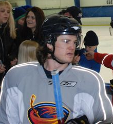 Garnet Exelby at Thrashers Practice, Duluth Ice Forum